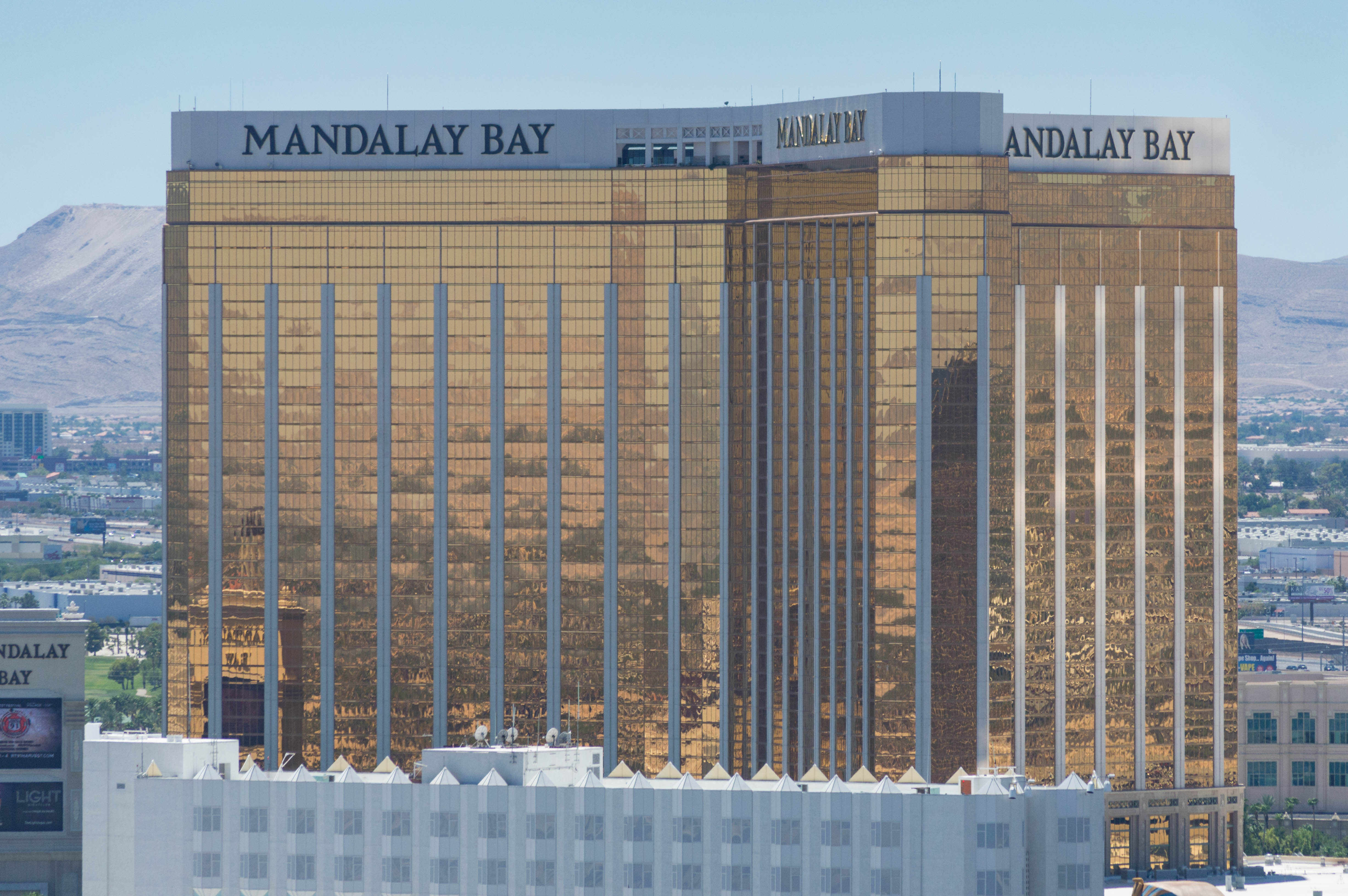 Mandalay Bay hotel in Las Vegas, seen from the roof terrace of Marriott's Grand Chateau.